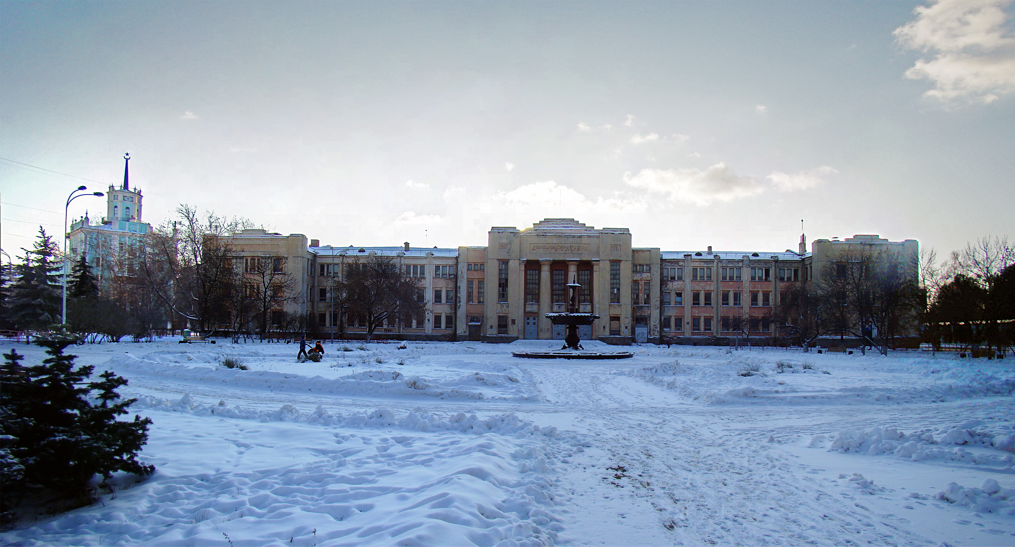 Nizhny Novgorod. Palace of Culture named after Lenin